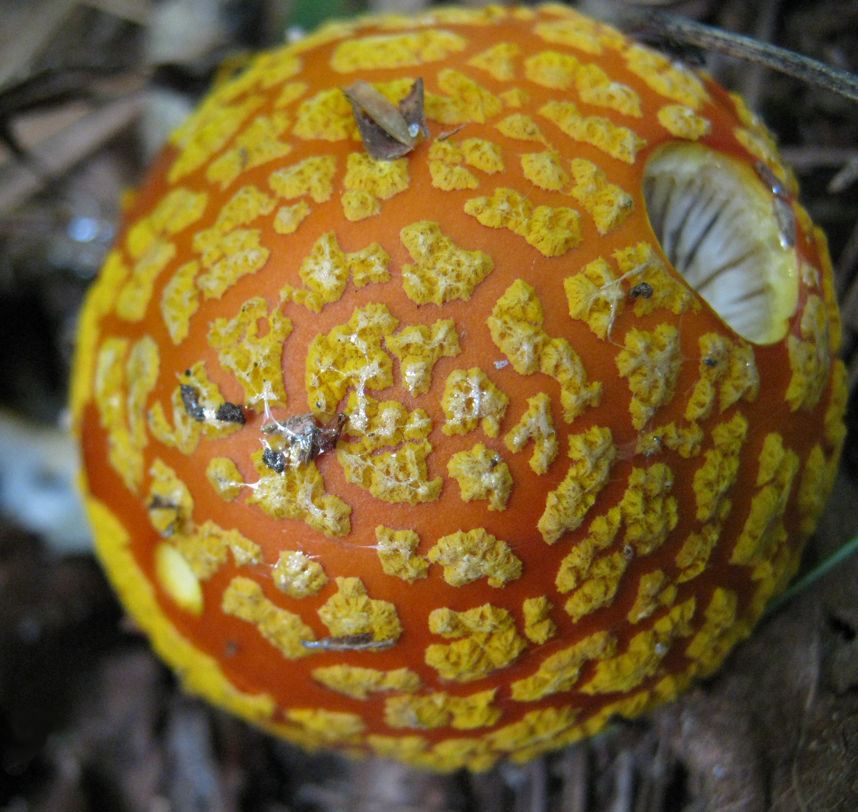 The mushroom Amanita flavoconia G. F. Atk. Specimen photographed in Forest near Elgin Street, Pembroke, Ontario, Canada. "Notes: Found in normally-boring Zone 07, in shrubbery. The only big trees near it that I saw were Pinus resinosa." Original version cropped and sharpened by uploader.